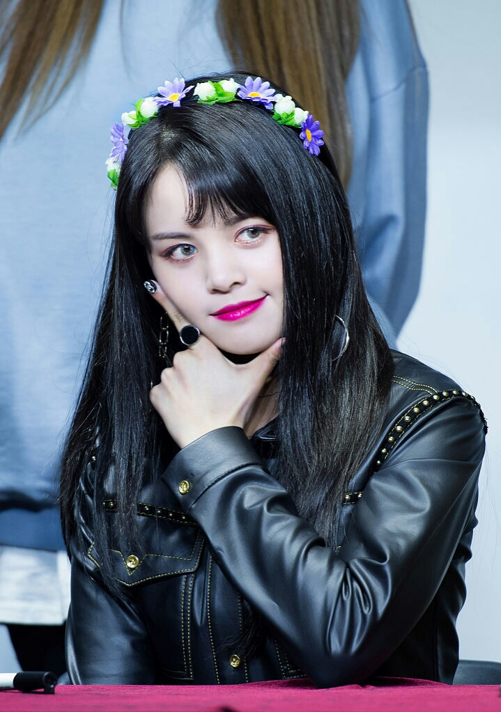 Sorn at Youngpoong Bookstore Gangnam Station Store Fan Sign Event on March 03, 2018.